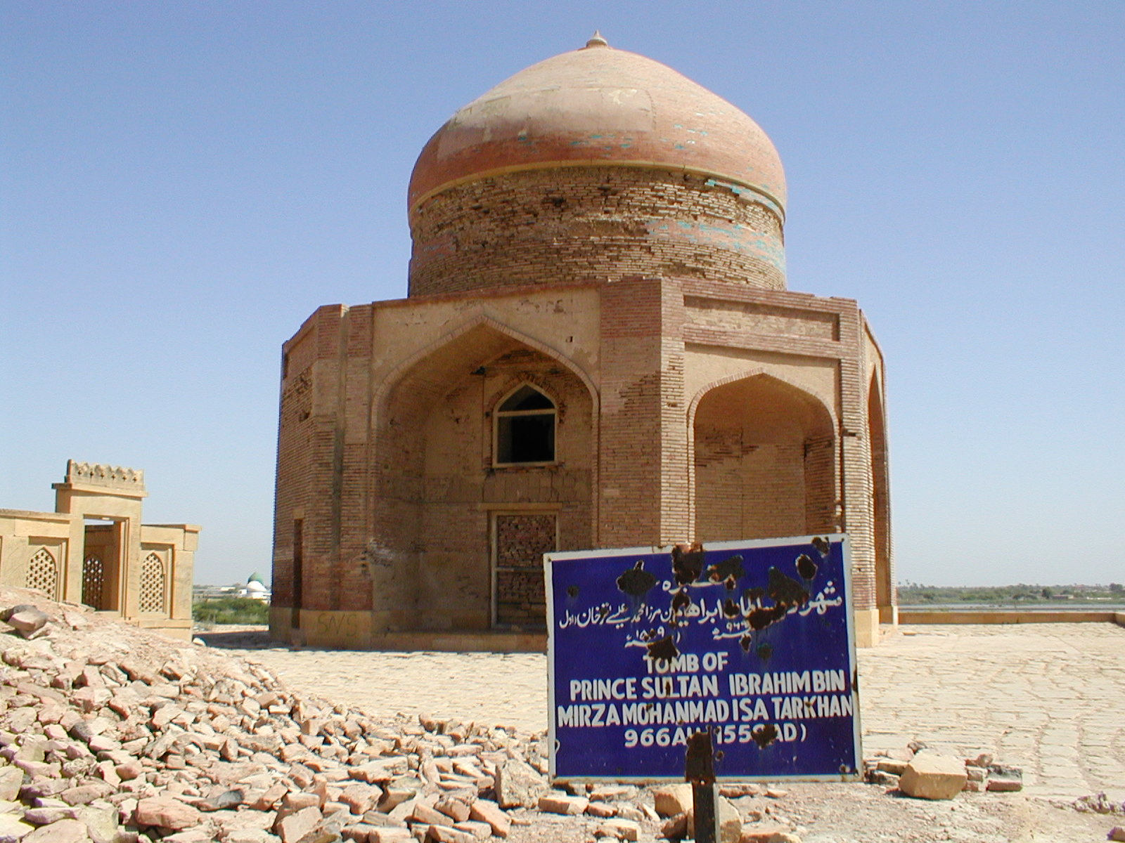 Ancient tomb — in Thatta district, Sindh province of Pakistan. Credits Picture taken by me (Waqas Muhammad) on my visit to Thatta in October 2005. You are free to use this image, just specify the source as wikipedia.